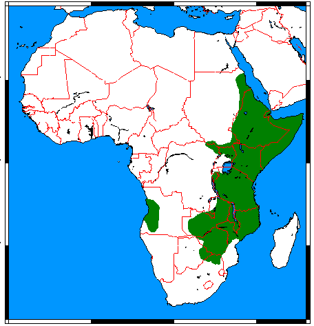 Range map for Yellow-spotted Rock Hyrax (Heterohyrax bruceii), made by me with help of Map depending on the range map at IUCN red list.